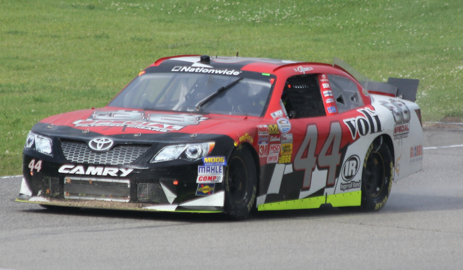 The drivers side of Carlos Contreras (racing driver) Nationwide car during the 2014 Gardner Denver 200 at Road America. Taken racing up the hill between turns 5 and 6.